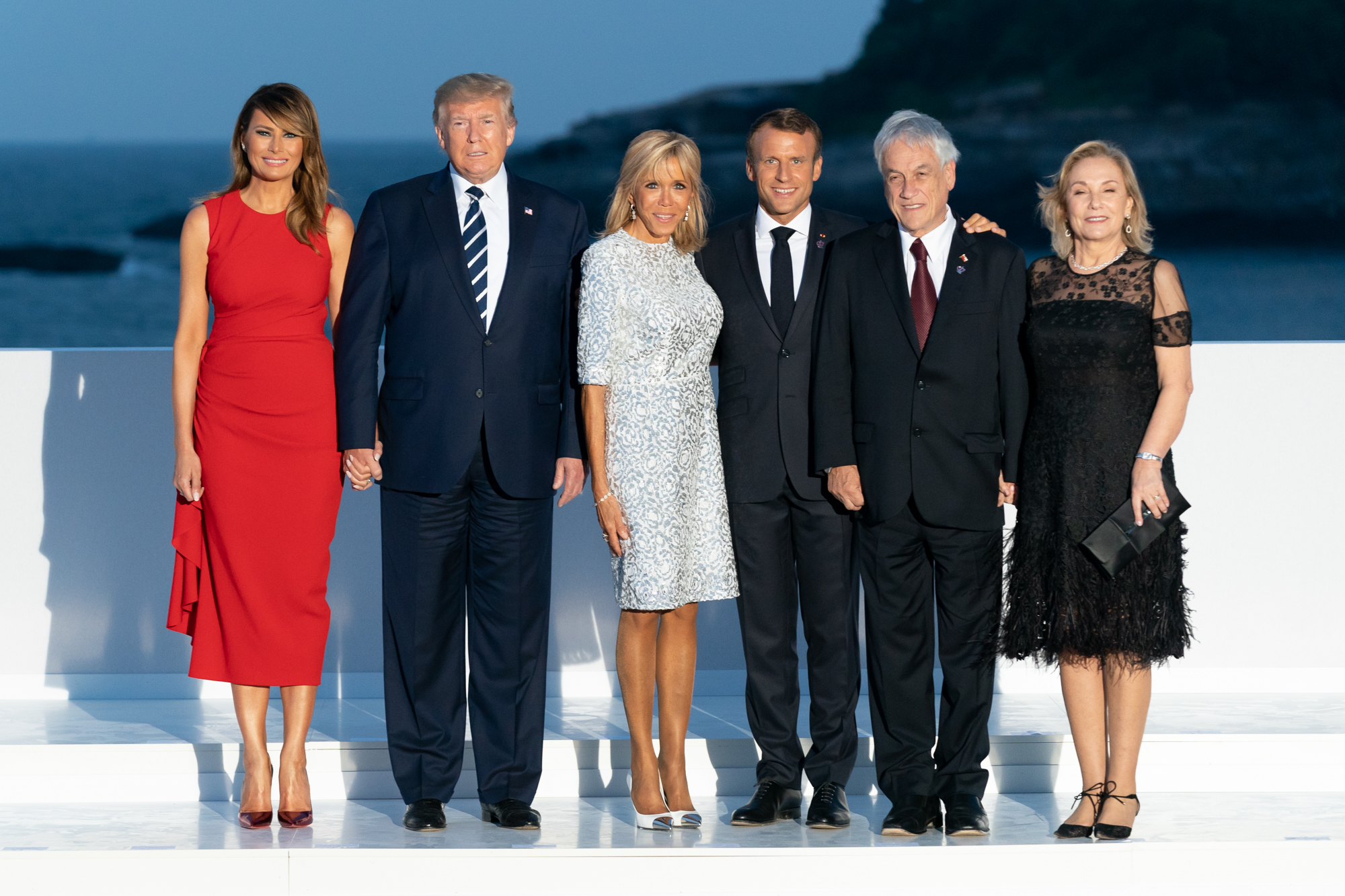 President Donald J. Trump and First Lady Melania Trump pose for a photo with President Emmanuel Macron of France, his wife Mrs. Brigitte Macron, President Sebastien Pinera of Chile and his wife Mrs. Cecilia Morel, during the G7 Extended Partners Program Sunday, Aug. 25, 2019, at the Hotel du Palais in Biarritz, France. (Official White House Photo by Andrea Hanks)